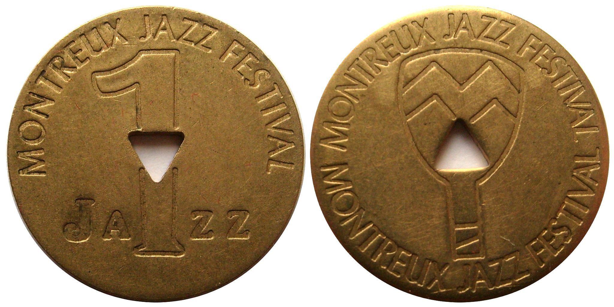 1 Jazz, Montreux, Switzerland